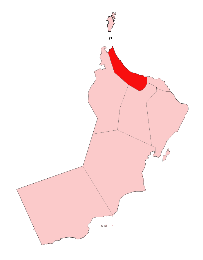 Map of Oman showing Al Batinah region